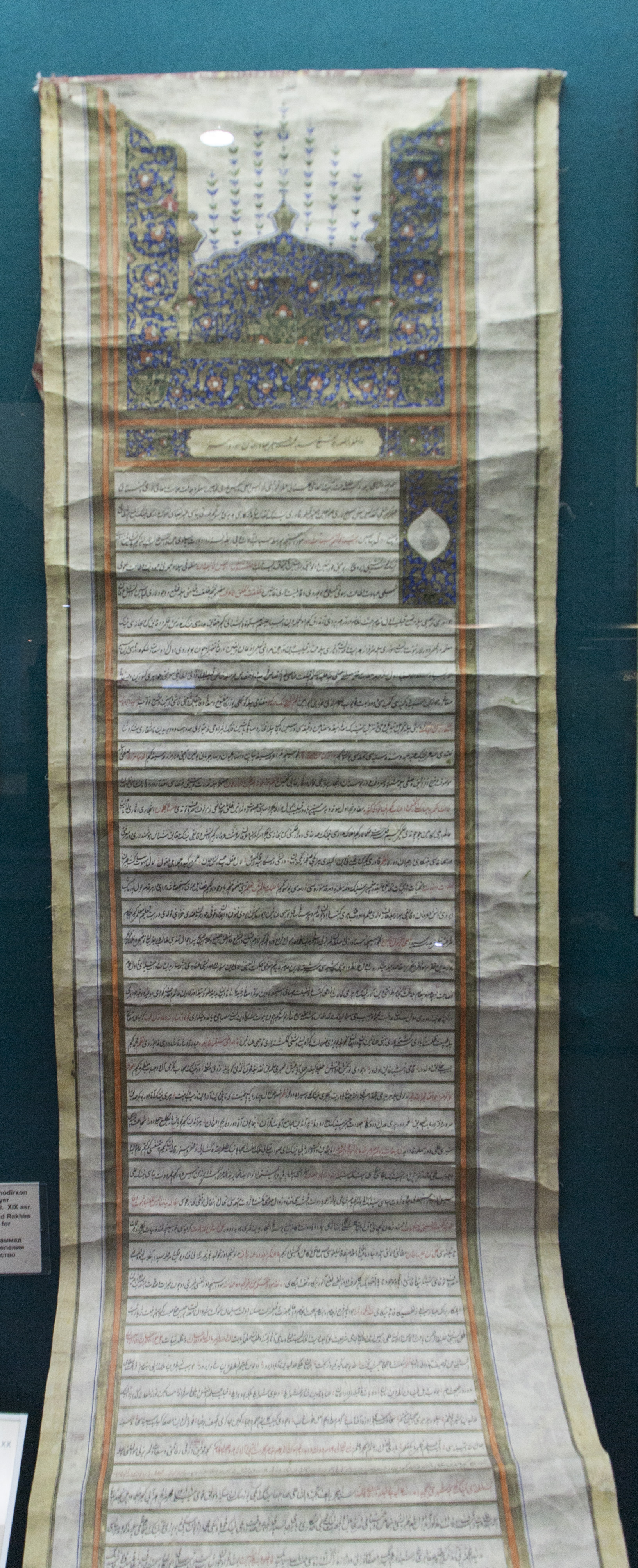 about medresse "Olia" building in Khiva